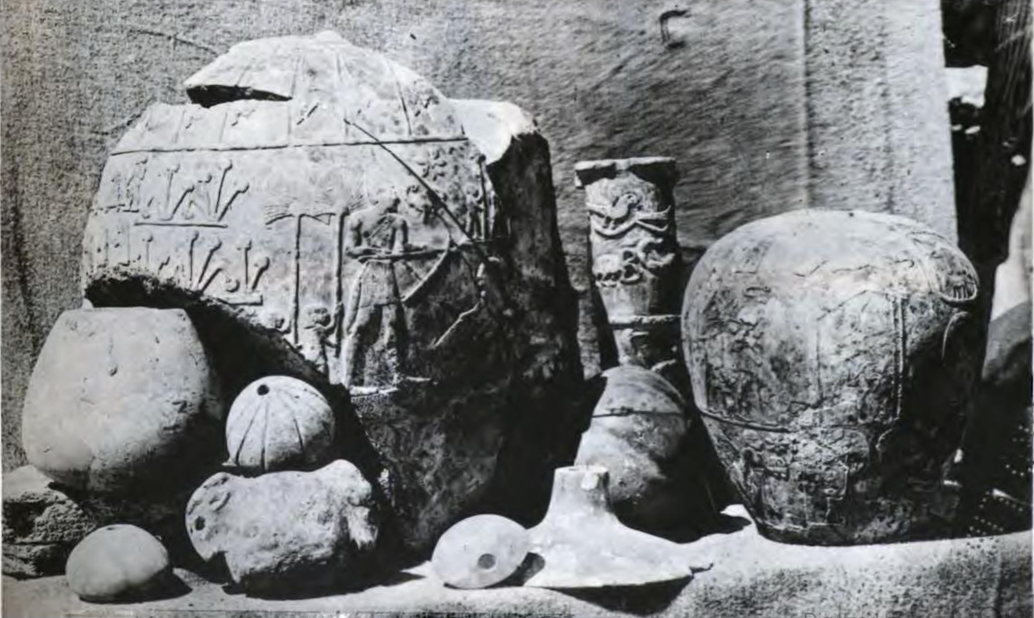 Hierakonpolis objects at time of discovery